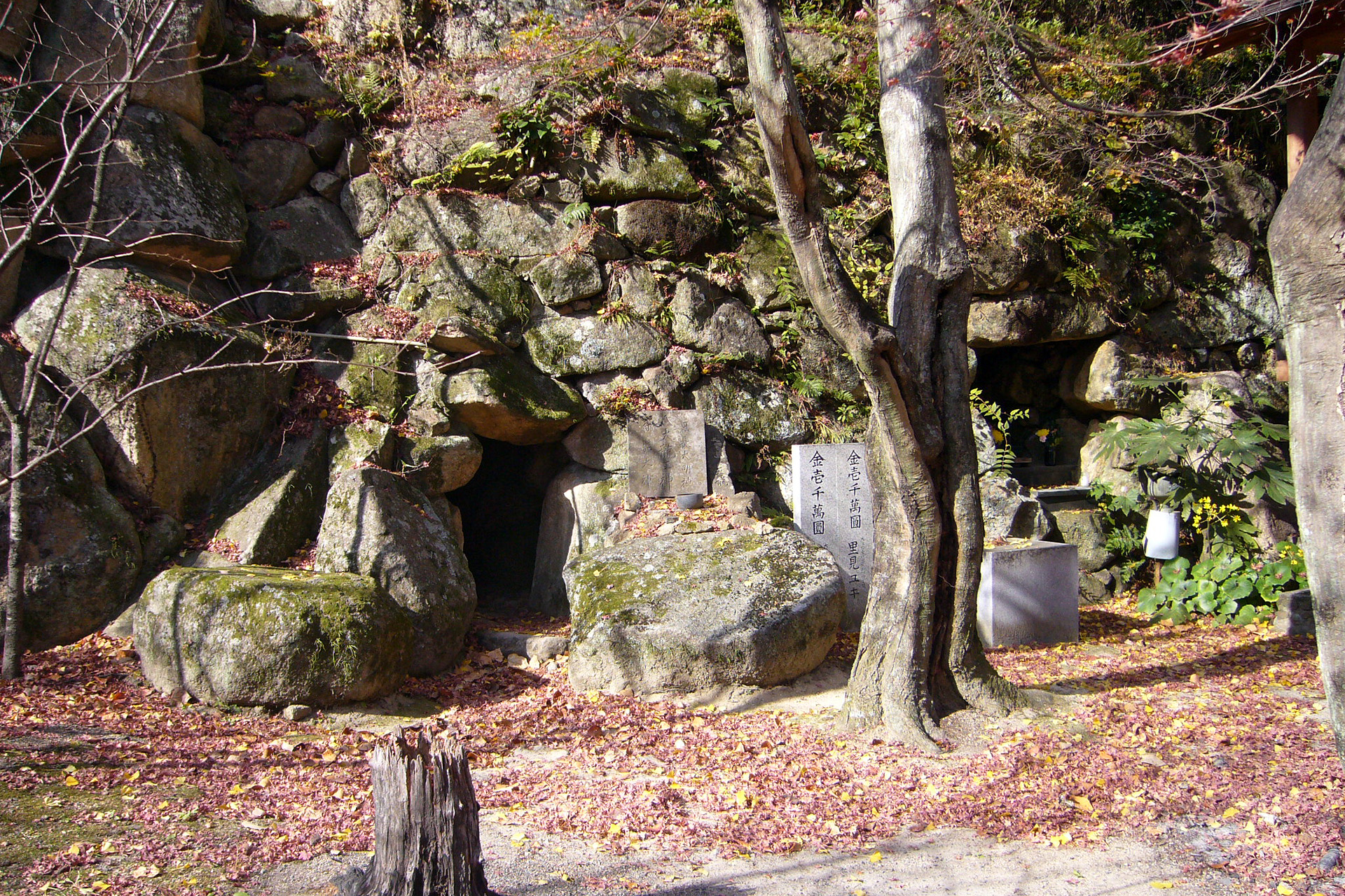 Jurinji in Nishinomiya, Hyogo prefecture, Japan